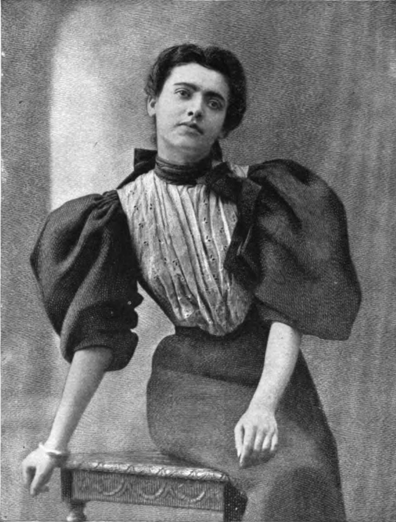 Actress Bijou Fernandez